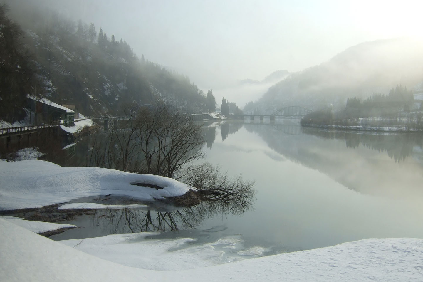 Scenery of Tadami-Line in Japan(March 2007)